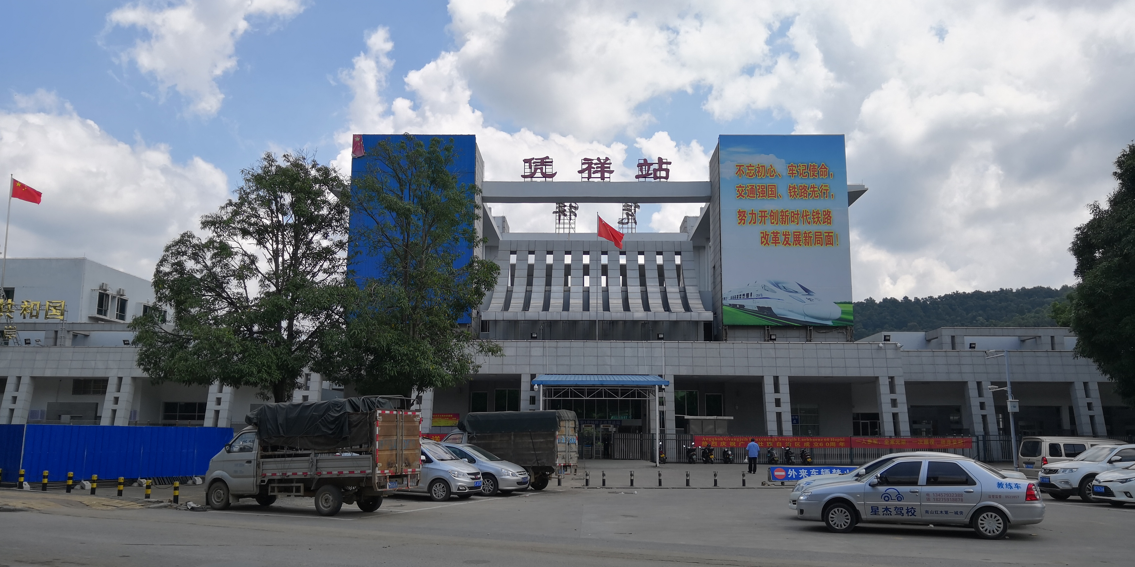 Pingxiang Railway Station (Sep 15, 2018)